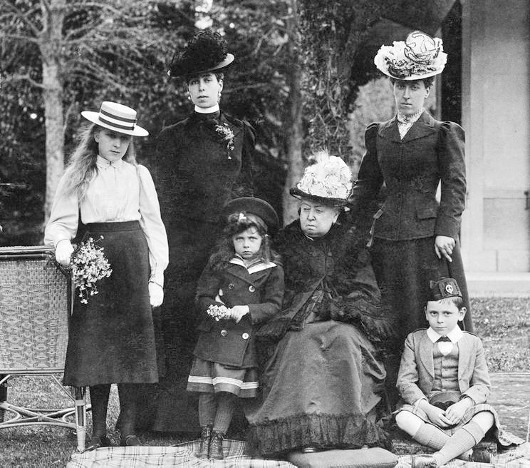 This photograph of Queen Victoria with grandchildren, including the Battenbergs and Victoria, grand duchess of Hesse, and her daughter Princess Elisabeth, dates from about 1899 or 1900. I'm not sure where it originated. I uploaded it from a posting at the If it's not in the public domain, please delete it. Group photograph taken outside Garden Cottage of Princess Helena Victoria of Schleswig-Holstein (1870–1948); Princess Victoria Melita of Saxe-Coburg and Gotha (1876–1936); Princess Elisabeth of Hesse and by Rhine (1895–1903); Prince Maurice of Battenberg (1891–1914); Victoria Eugenie of Battenberg (1887–1969)